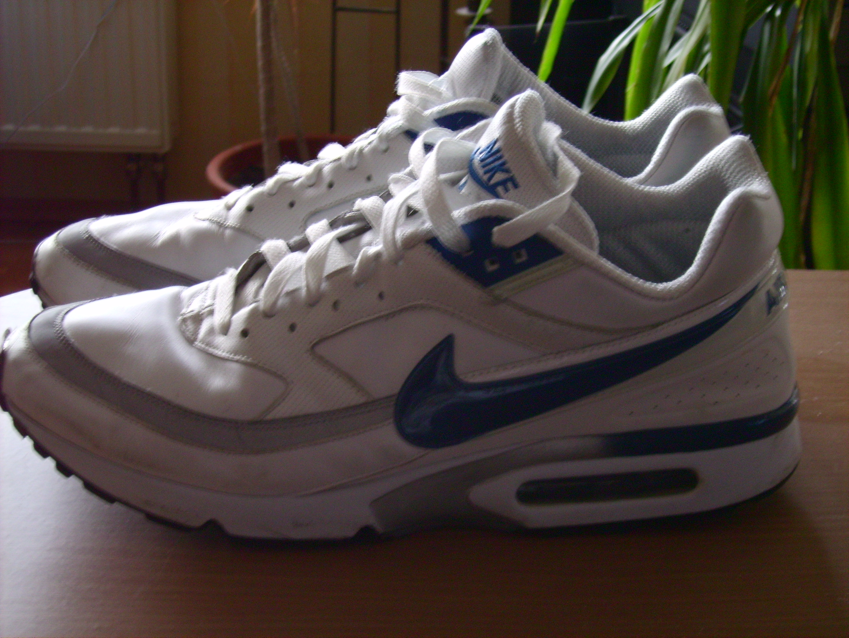 Nike Airmax Classic BW